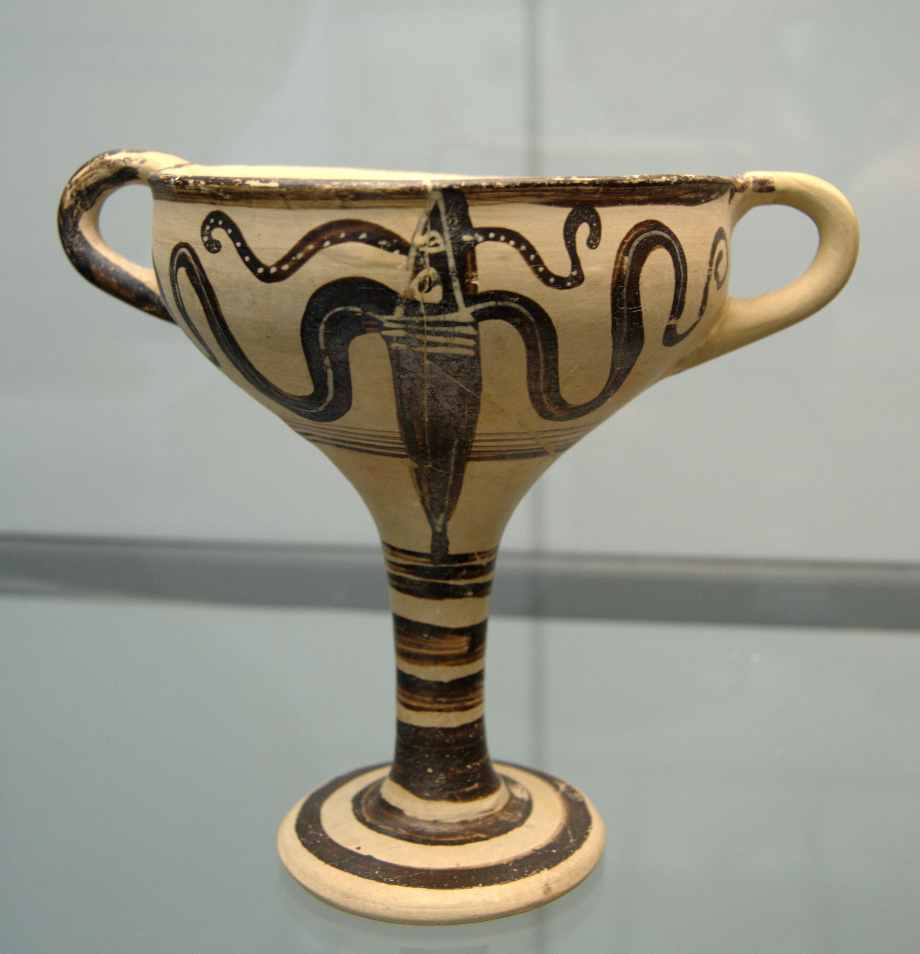 Late Mycenaean style, 1300–1200 BC.